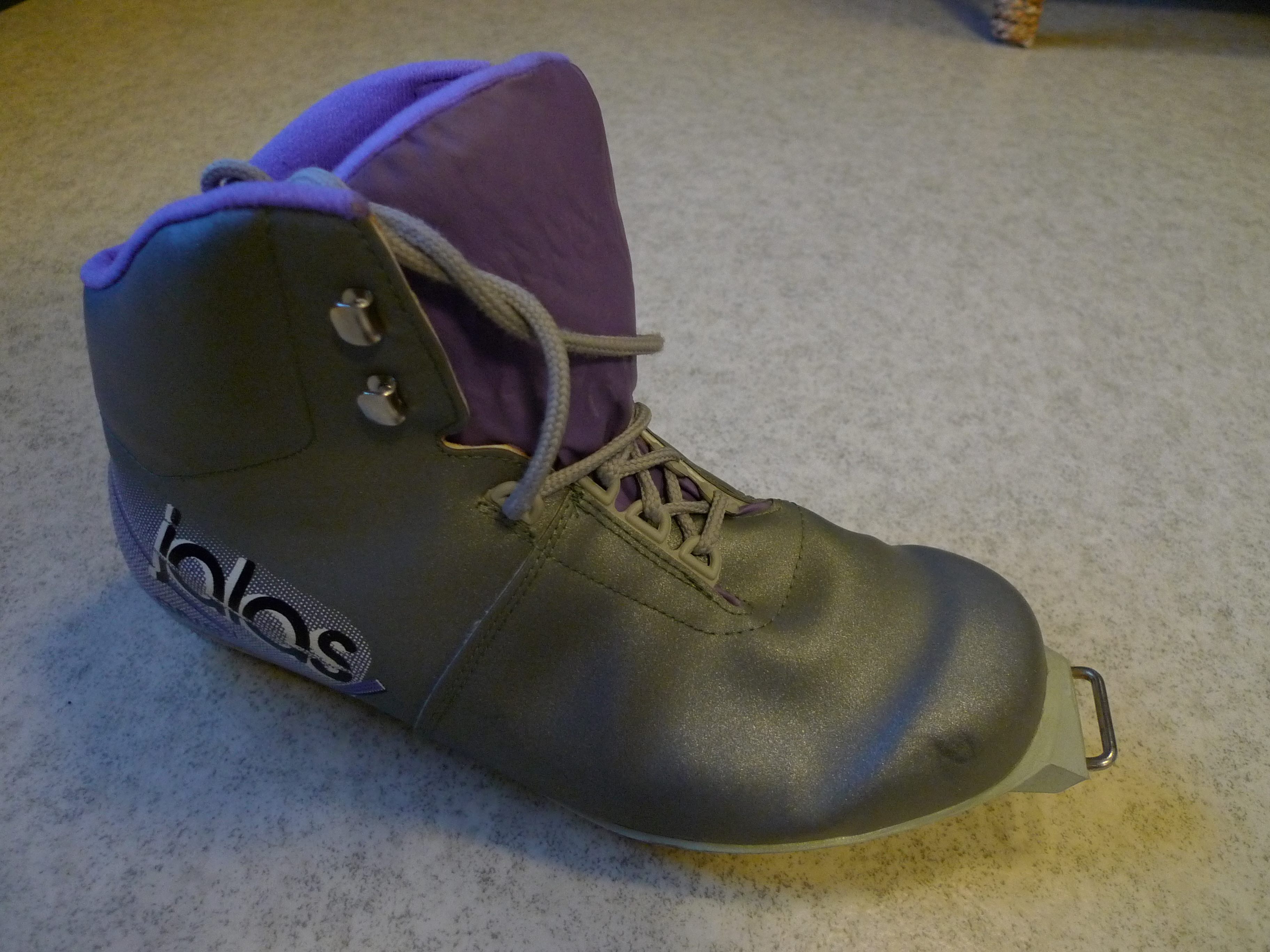 Side view of a cross-country skiing shoe with the original SNS binding.